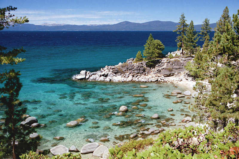 Lake Tahoe, Nevada, USA, Humboldt-Toiyabe National Forest, Secret Cove